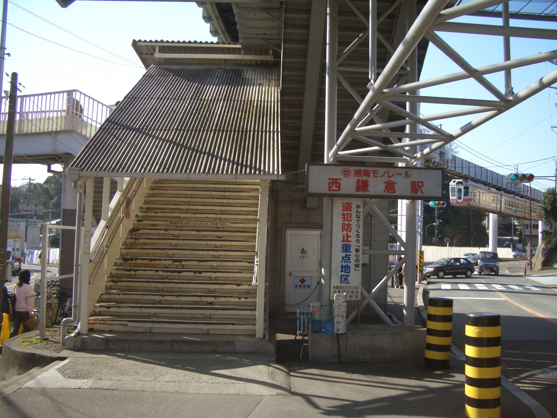 The entrance to Nishi-Kamakura Station on the Shōnan Monorail Line in Kamakura city, Kanagawa prefecture, Japan